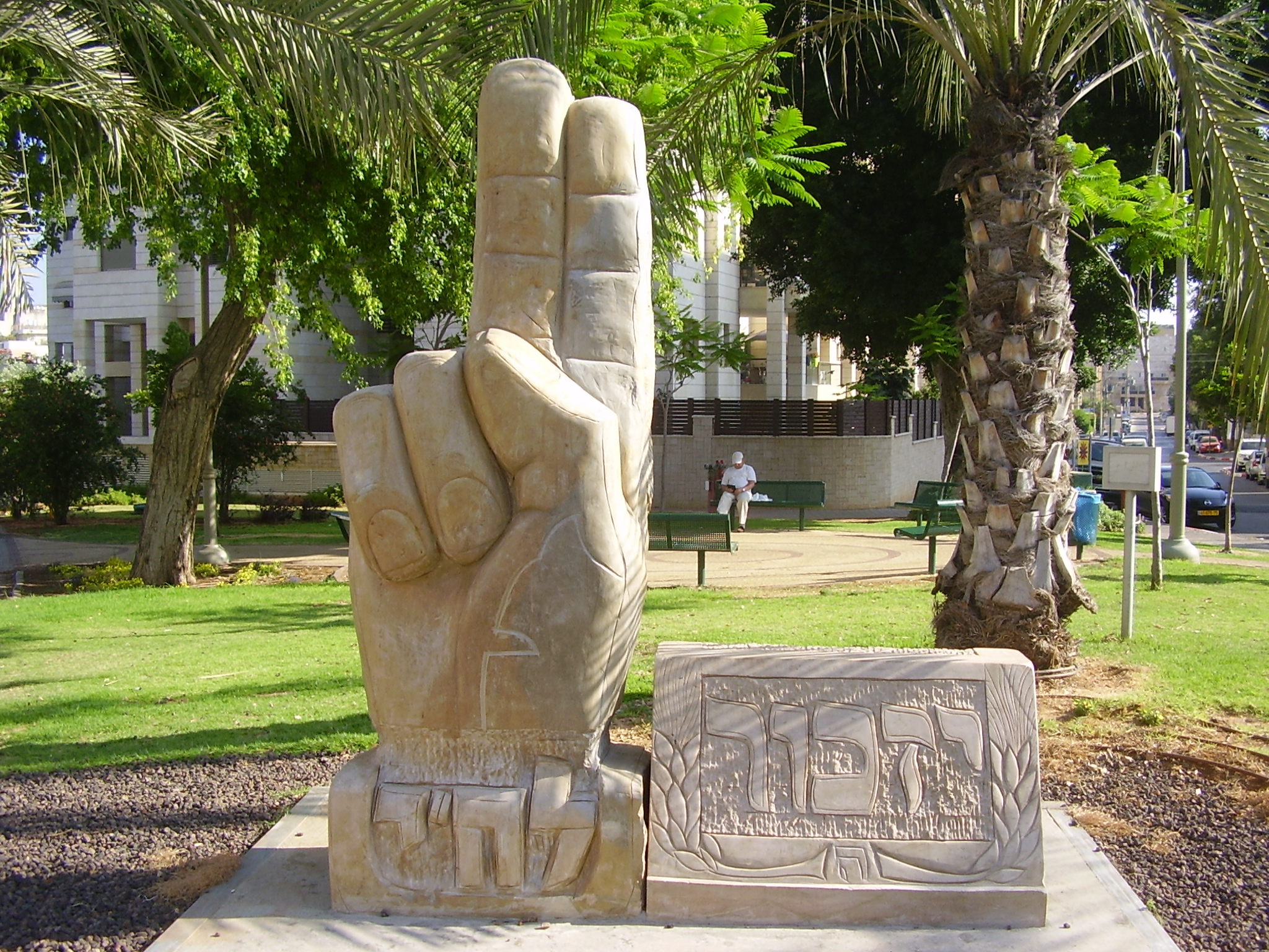 lehi (israel freedom fighters) memorial in petah tikva, israel אנדרטת לח"י בפתח תקווה